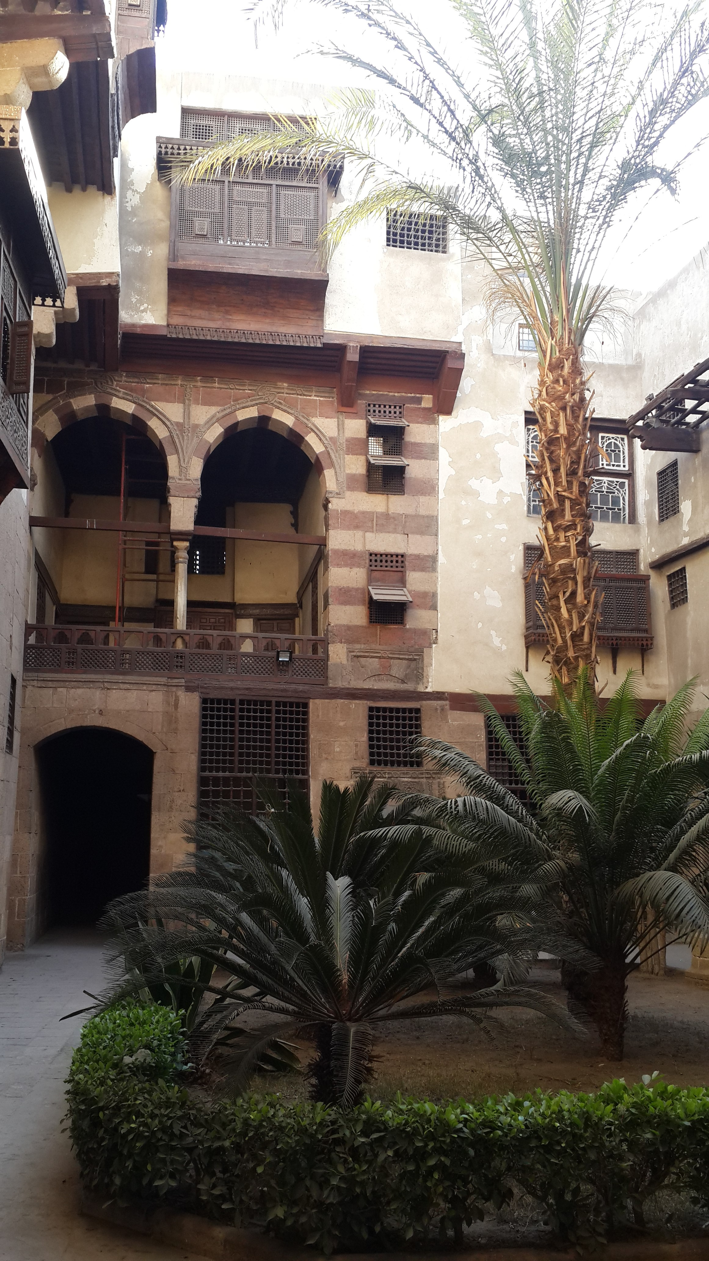 Al Suhaymi house was built in 1645 A.D.